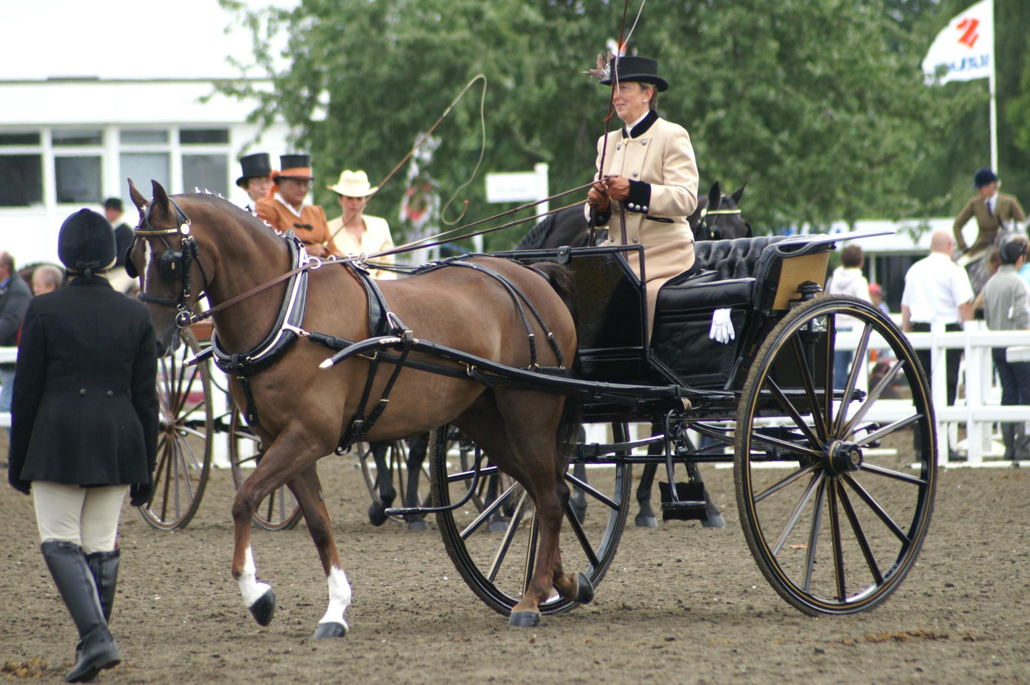 Driving Competion